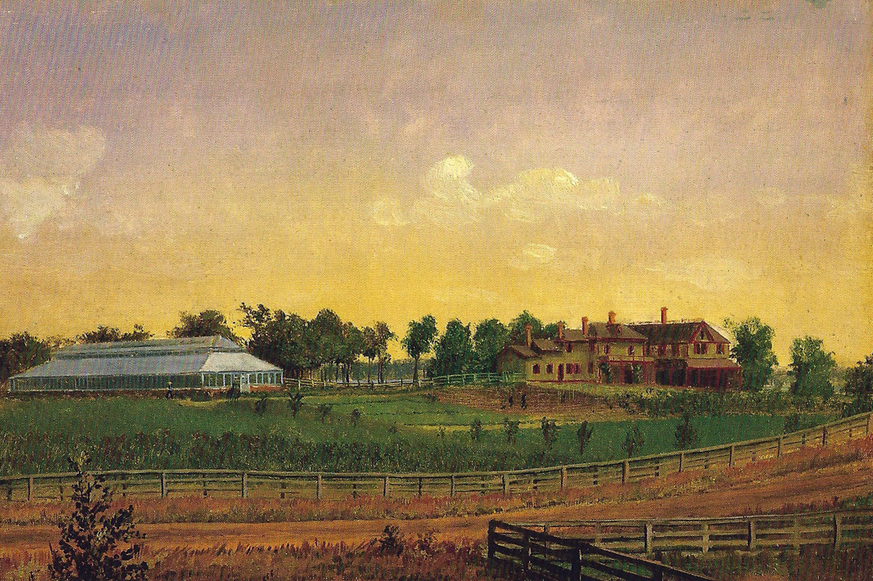 A painting of the James J. Hill estate at North Oaks Farm in 1914 by Jan Chelminski.